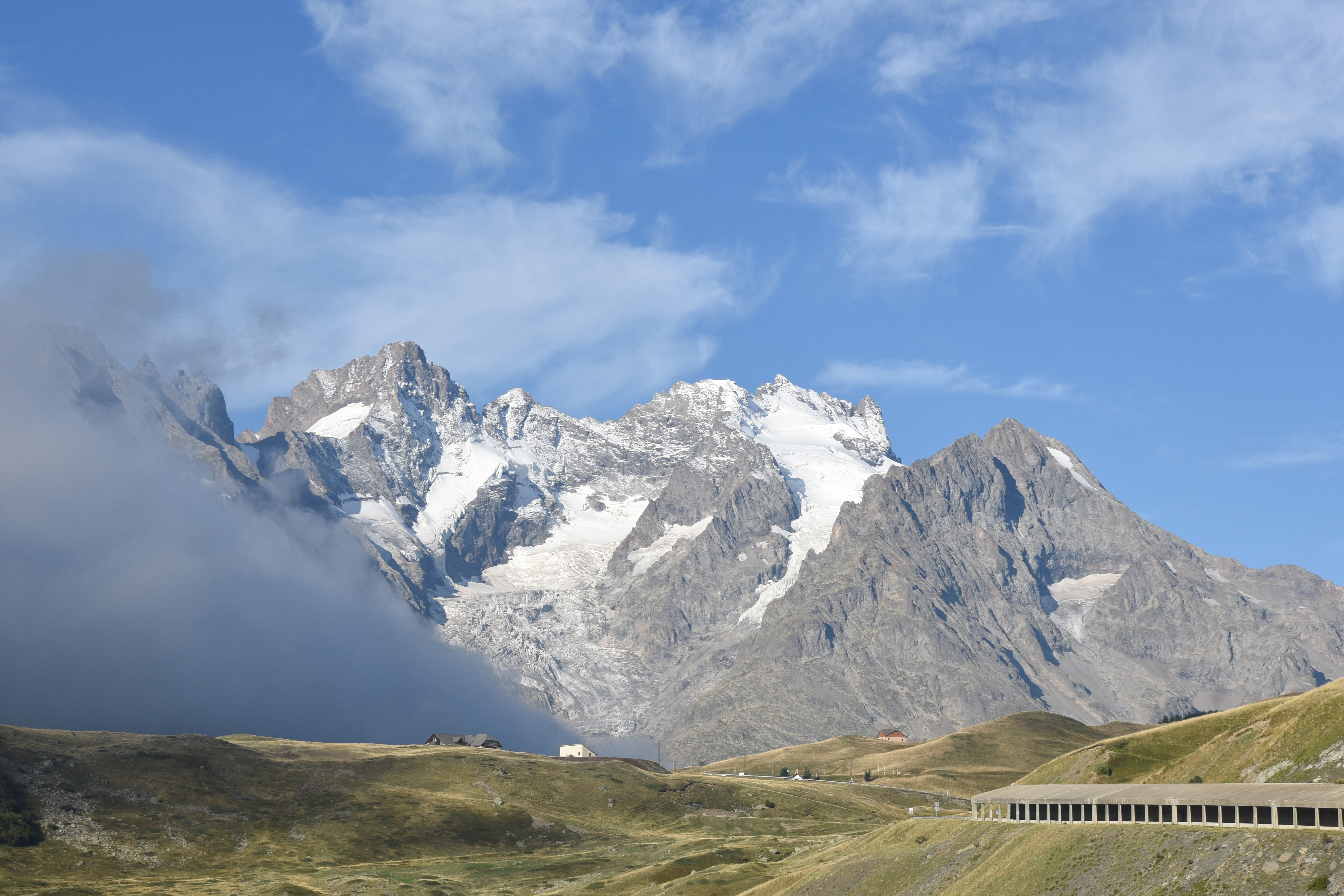 HACIA EL PARQUE NACIONAL